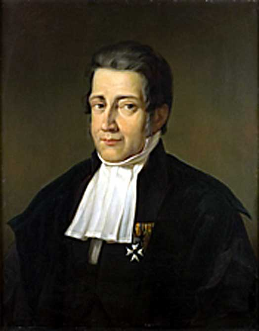 Johan Frederik van Oordt (1794-1852) Dutch Reformed theologian